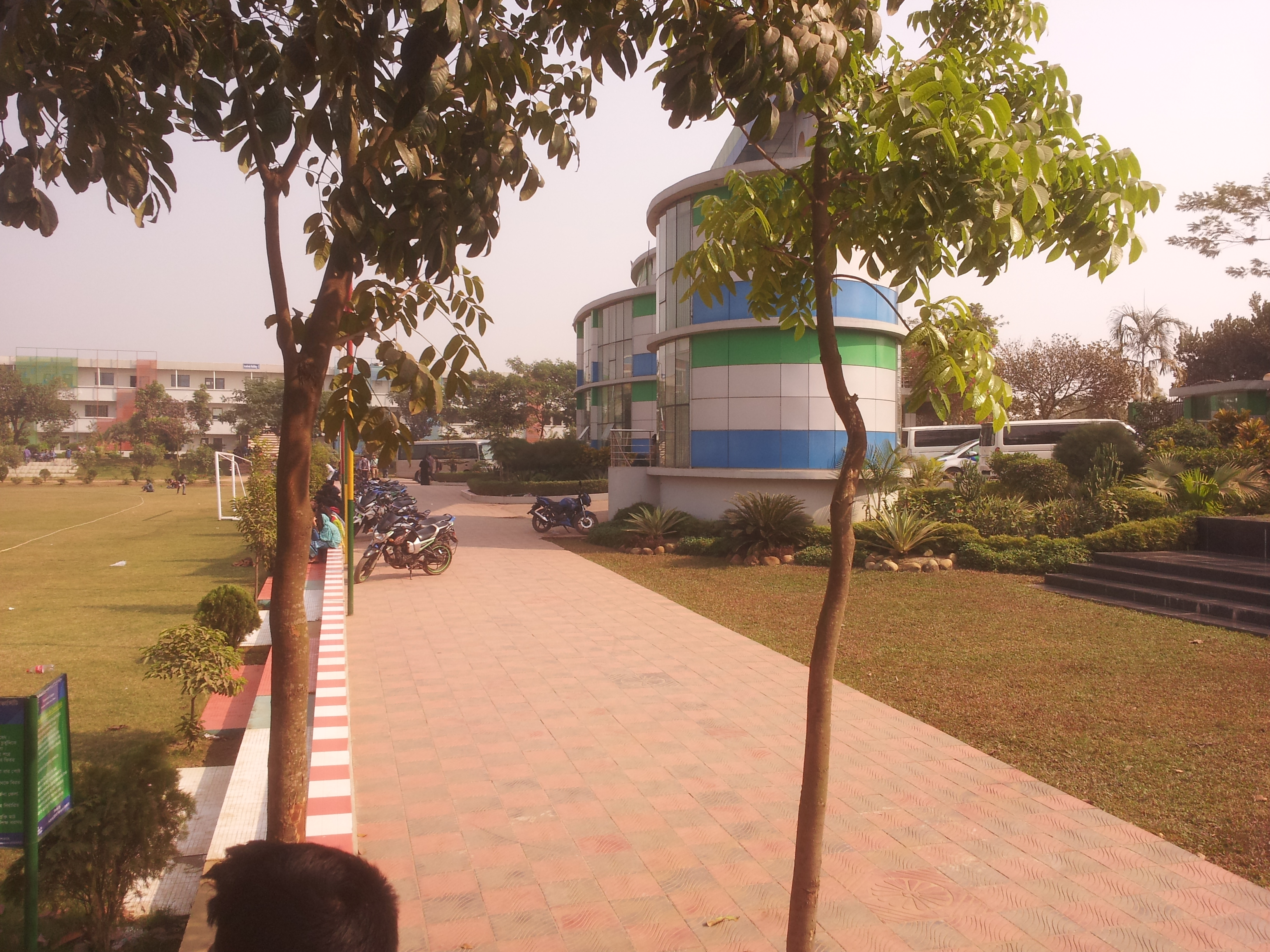 Daffodil International University Campus, Savar, Dhaka.